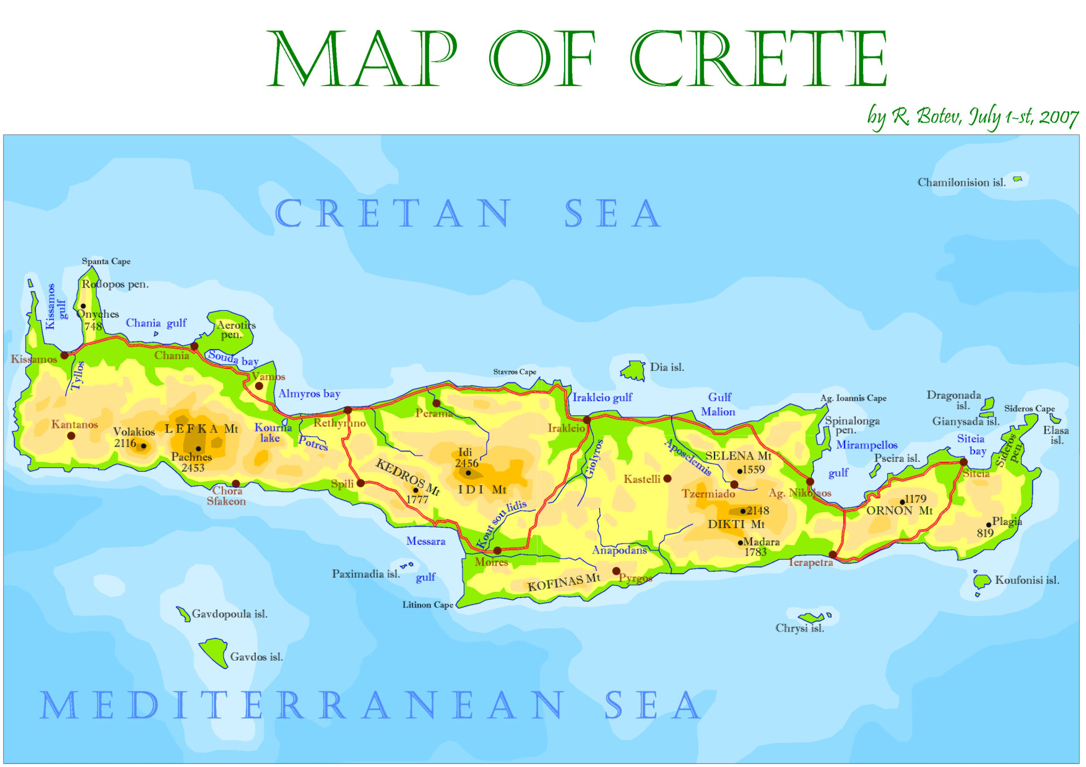 Map of Crete